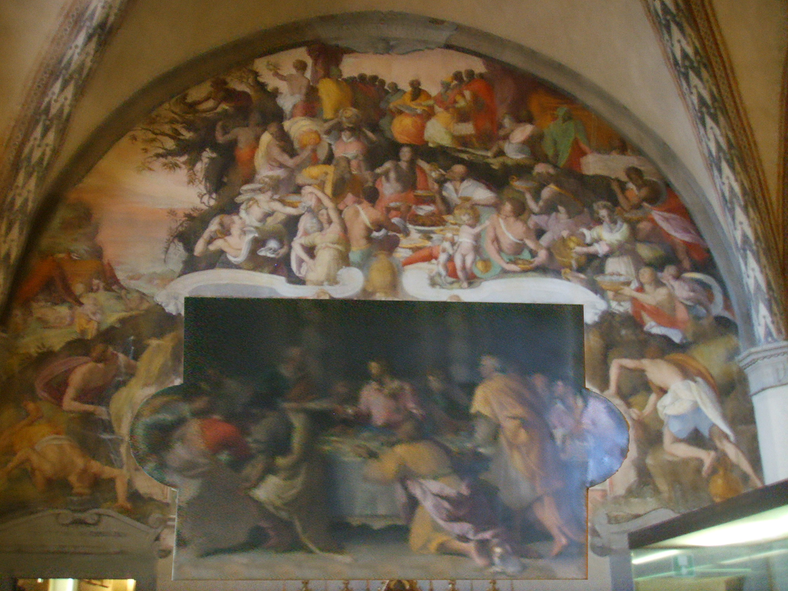 Santa Maria Novella church, last supper by Alessandro Allori (reconstruction), in Florence, Italy